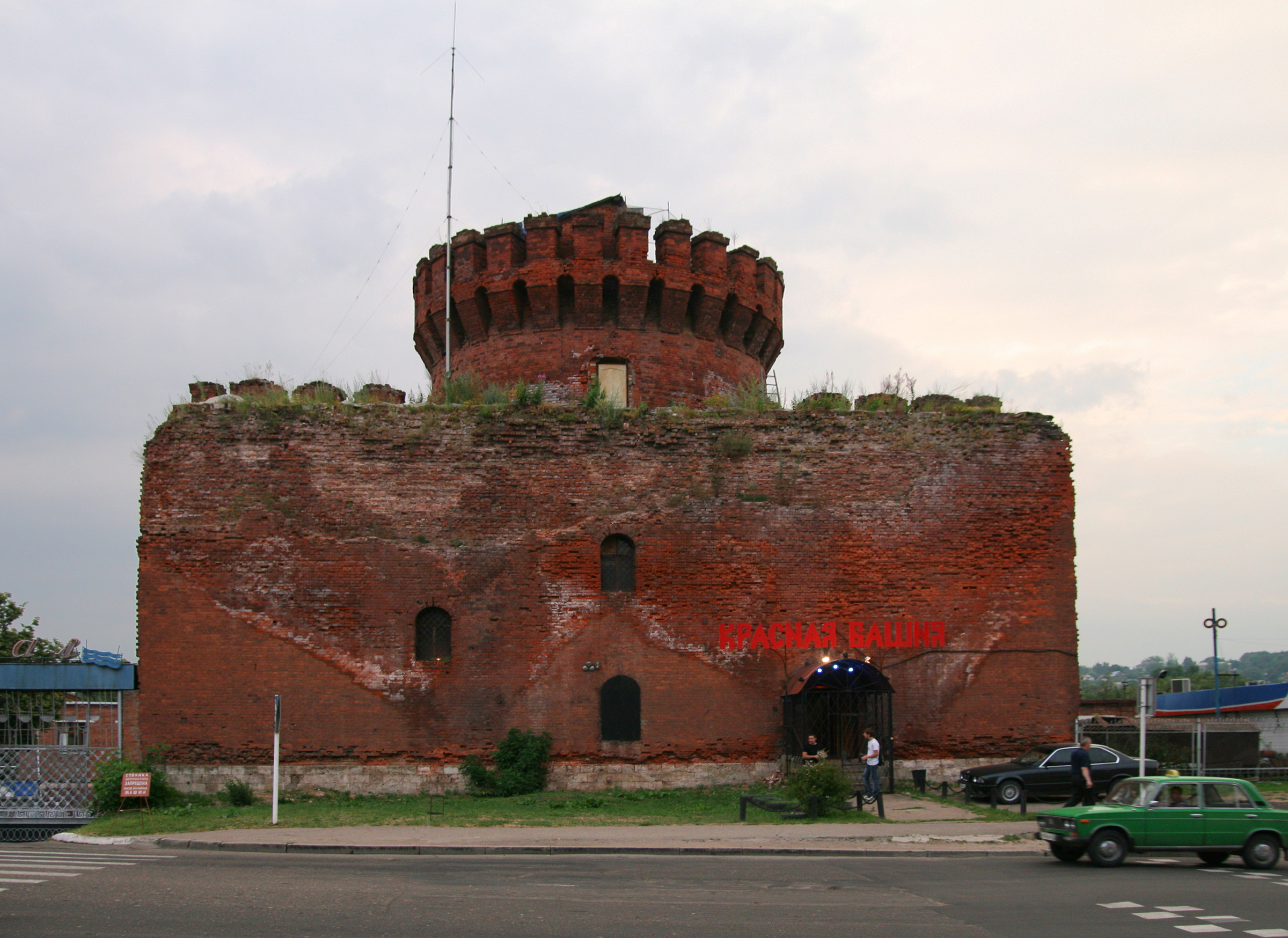 Kostyrevskaya Tower of the Smolensk Kremlin